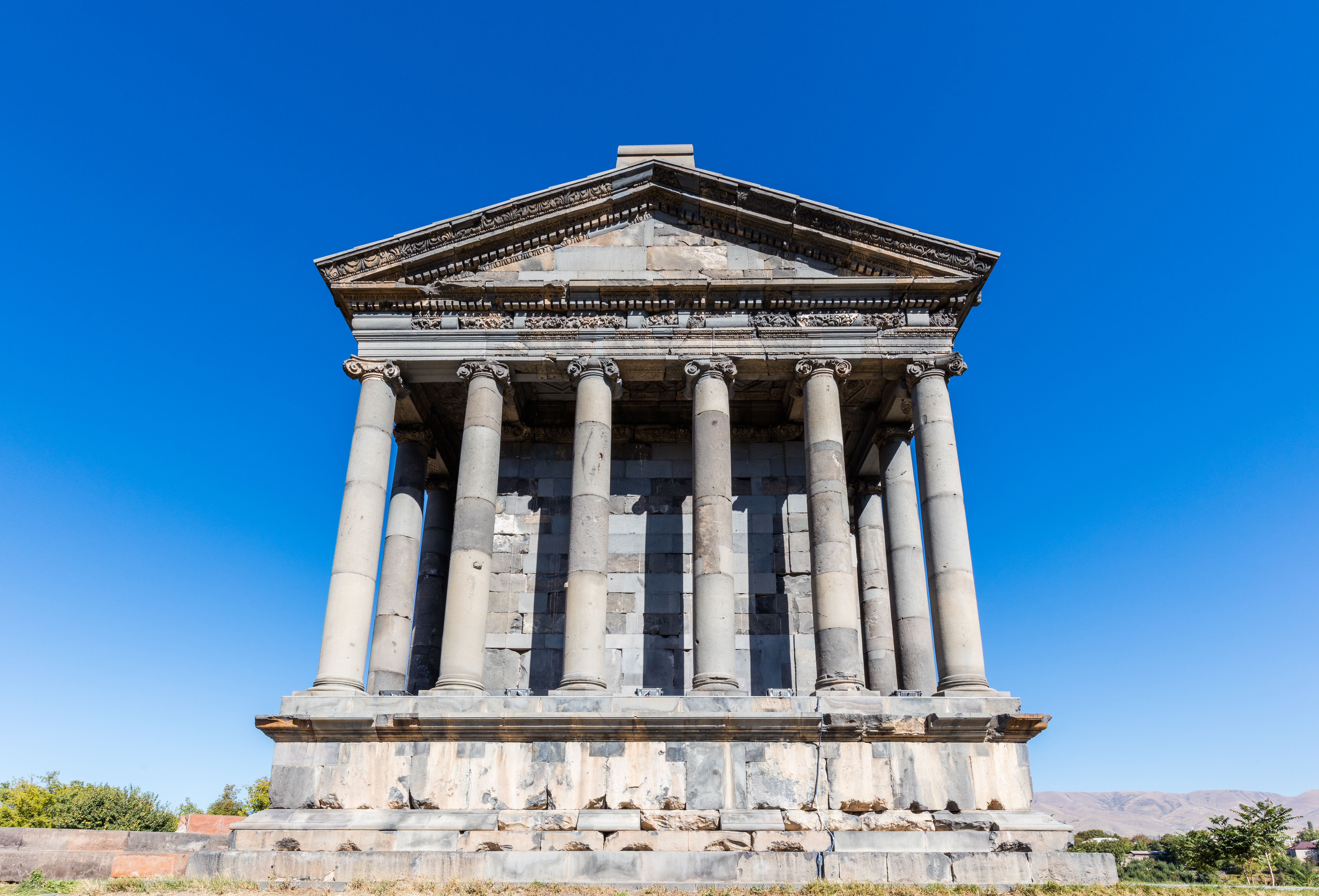 Garni Temple, Armenia